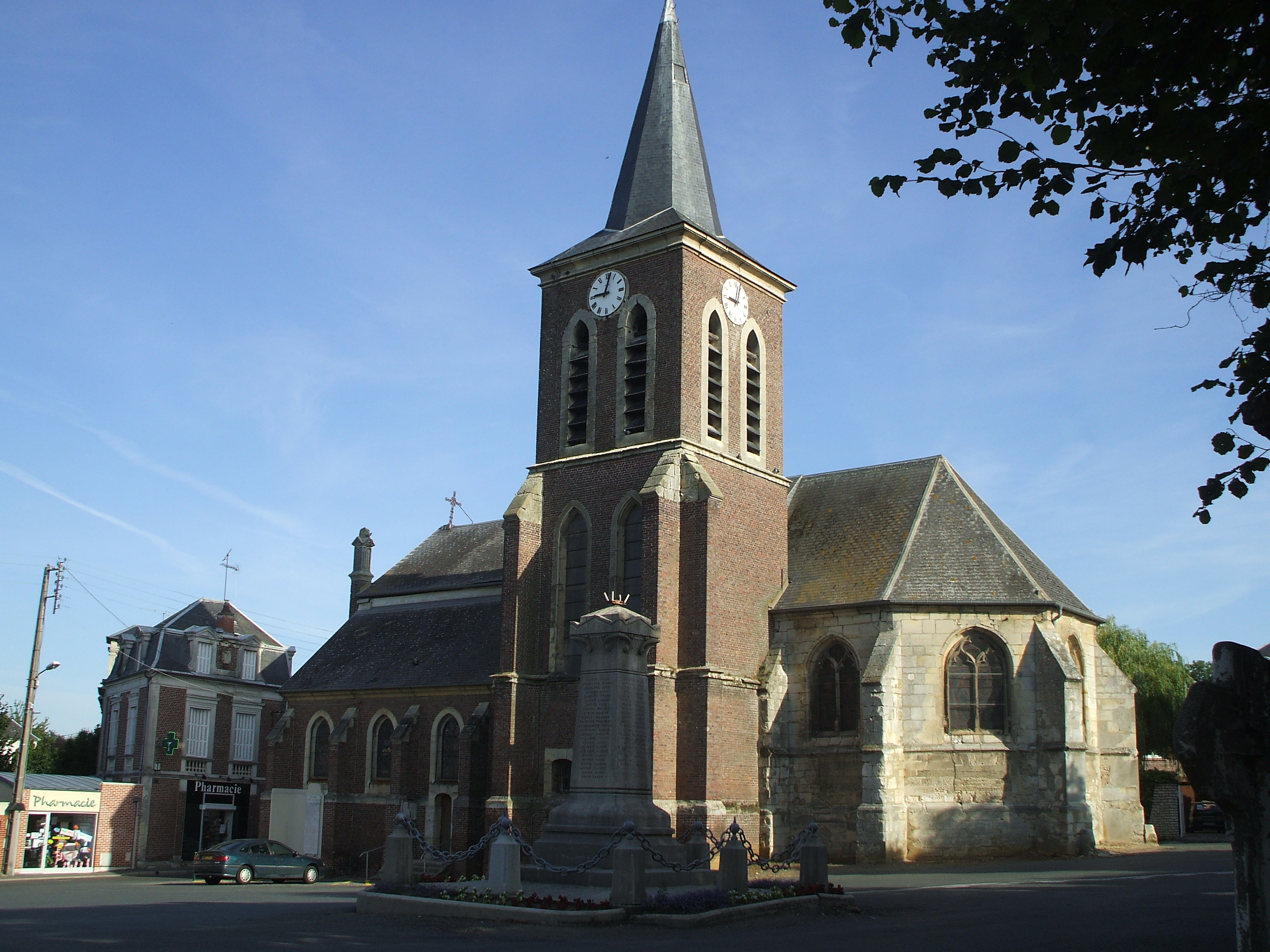 churche of andeville oise france